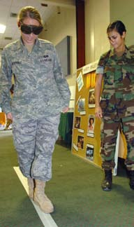 Air Force 1st Lt. Elesabeth Gutierrez, an officer with Joint Task Force Guantanamo’s J-1 staff, walks the line wearing “drunk goggles” while Master at Arms Seaman Victoria Muller evaluates during the Safety Standown.